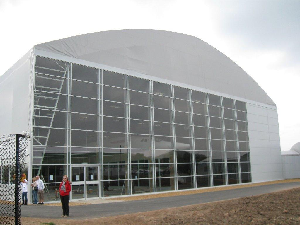 Concorde in her hangar at the Aviation Viewing Park at Mancehster Airport.